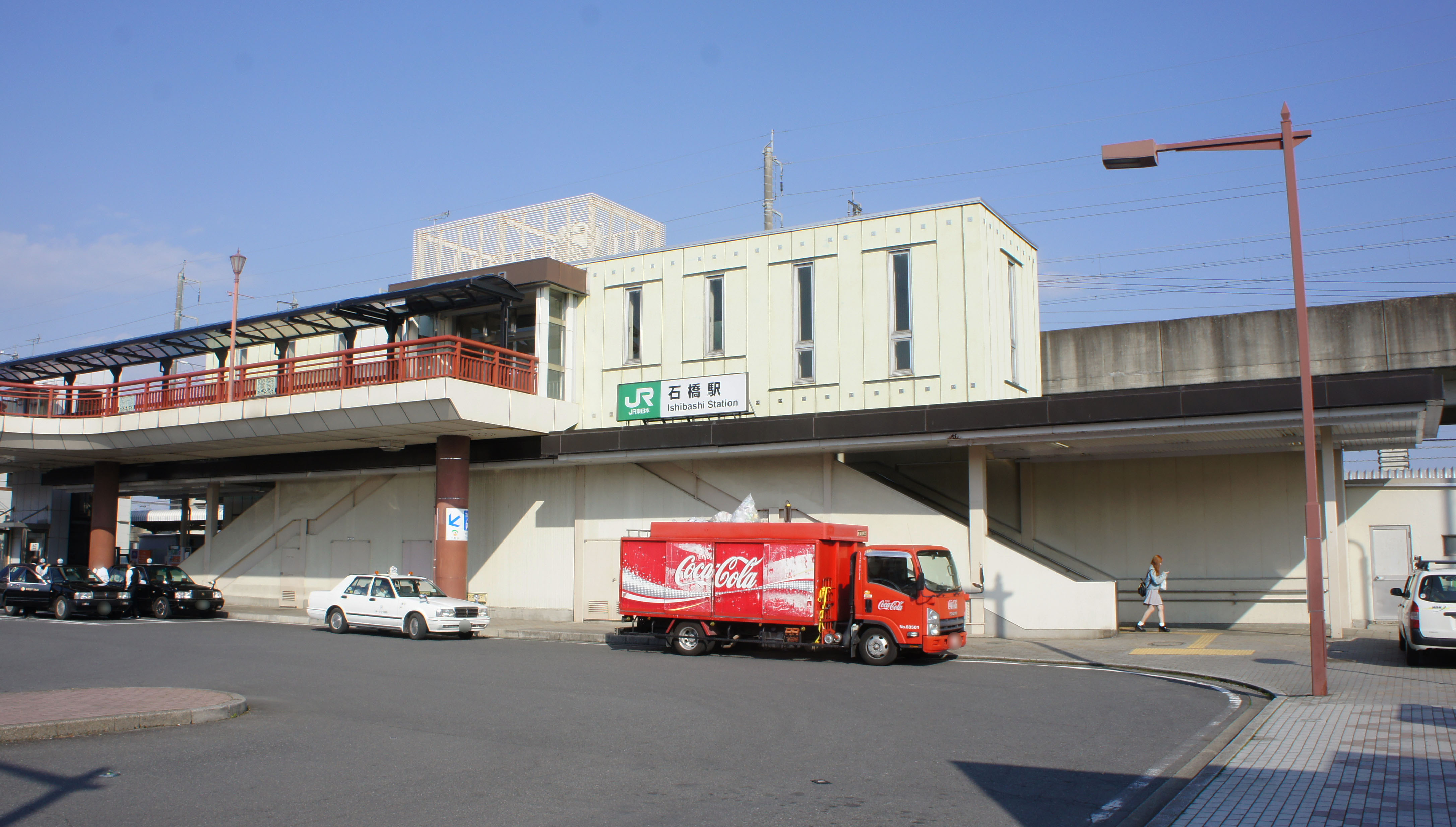 West Exit of JR Tohoku-Main-Line (Utsunomiya-Line) Ishibashi Station Sony NEX-3